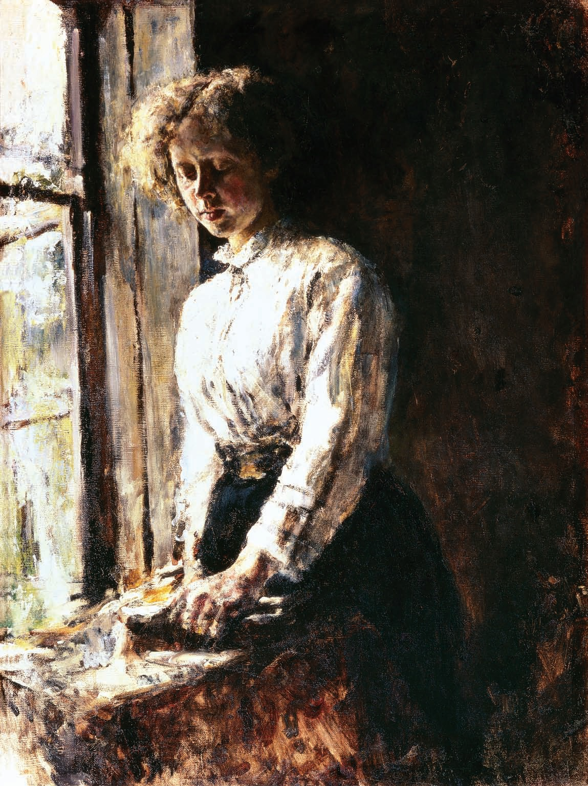 By the Window. Portrait of Olga Trubnikova. 1886. Oil on canvas mounted on cardboard. The Tretyakov Gallery, Moscow, Russia.